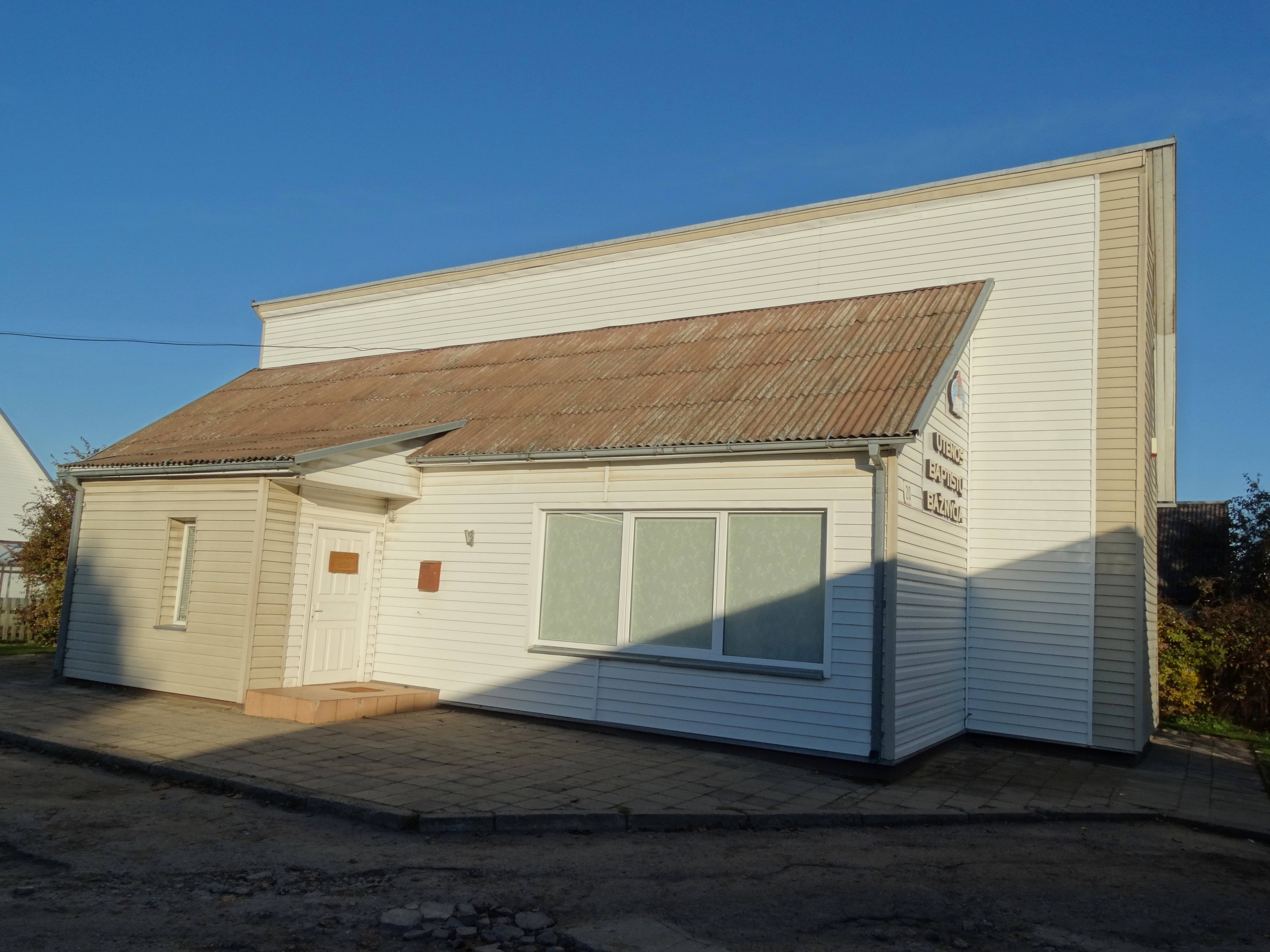 Baptist church, Utena, Lithuania